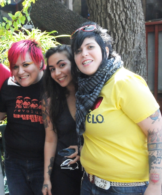 Roxy Epoxy, Derek Nicoletto, and Girl in a Coma on March 20, 2009